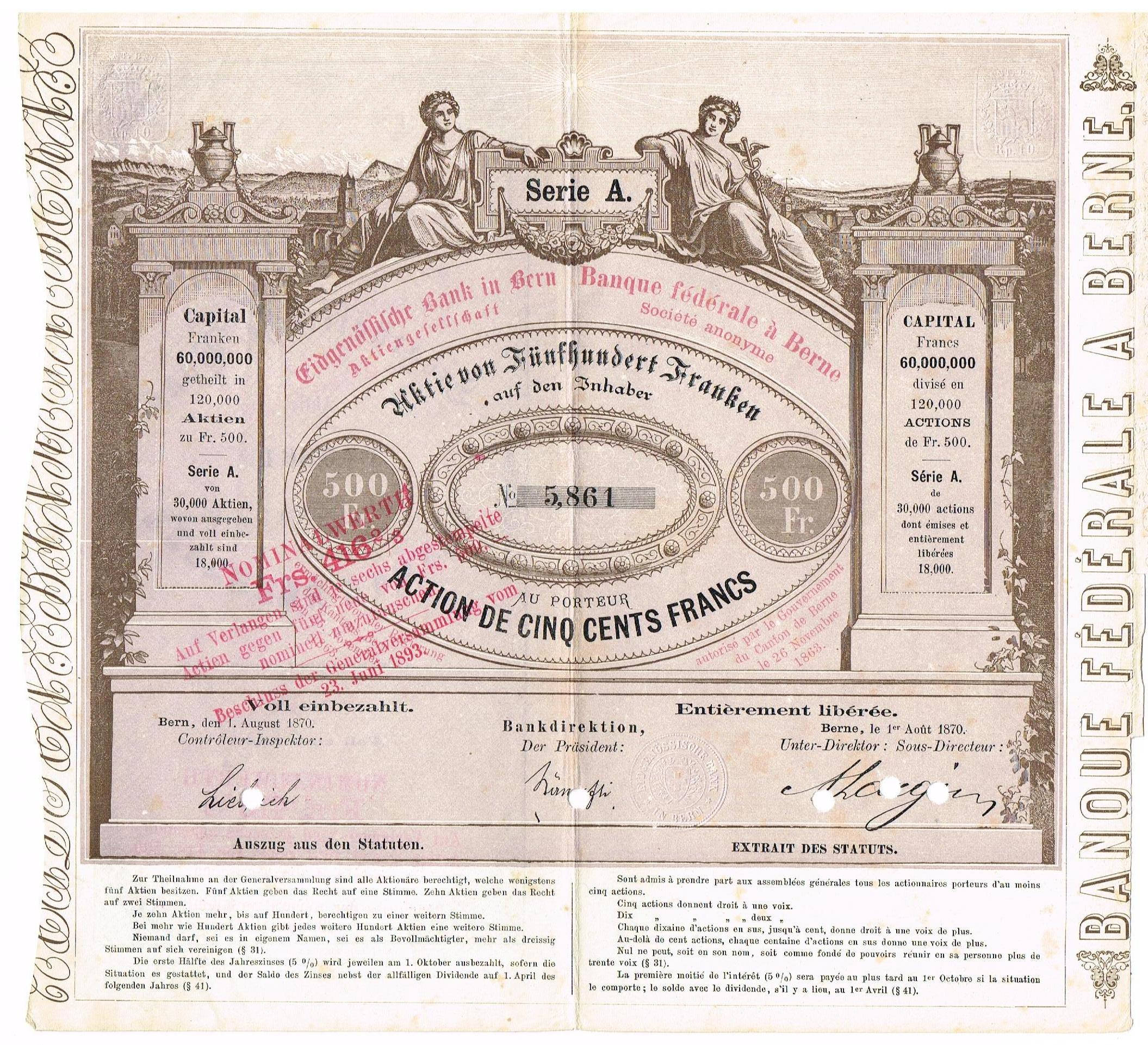 Share of the Eidgenoessische Bank, issued 1. August 1870, signed by Jakob Staempfli as president